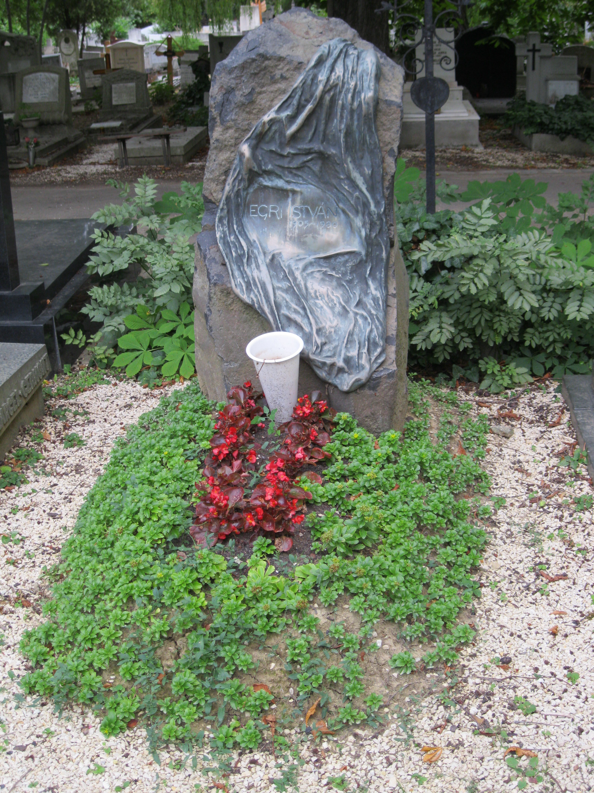 Tomb of István Egri in Farkasréti Cemetery [25-1-50]